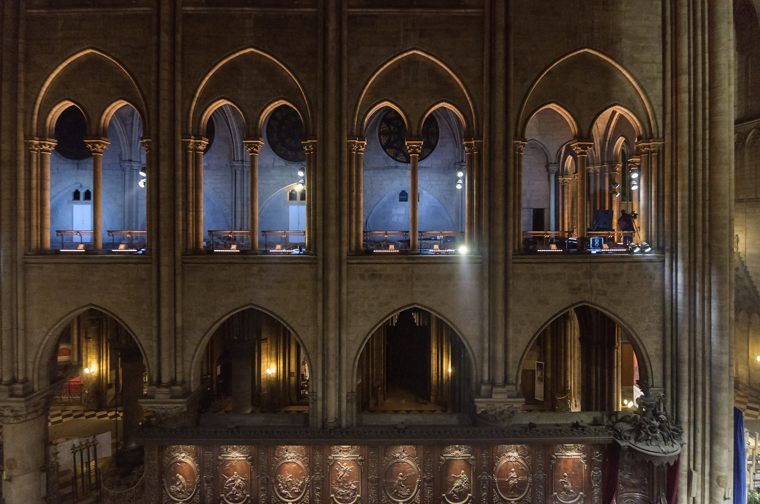 Notre Dame de Paris: view of the interior openwork gallery.